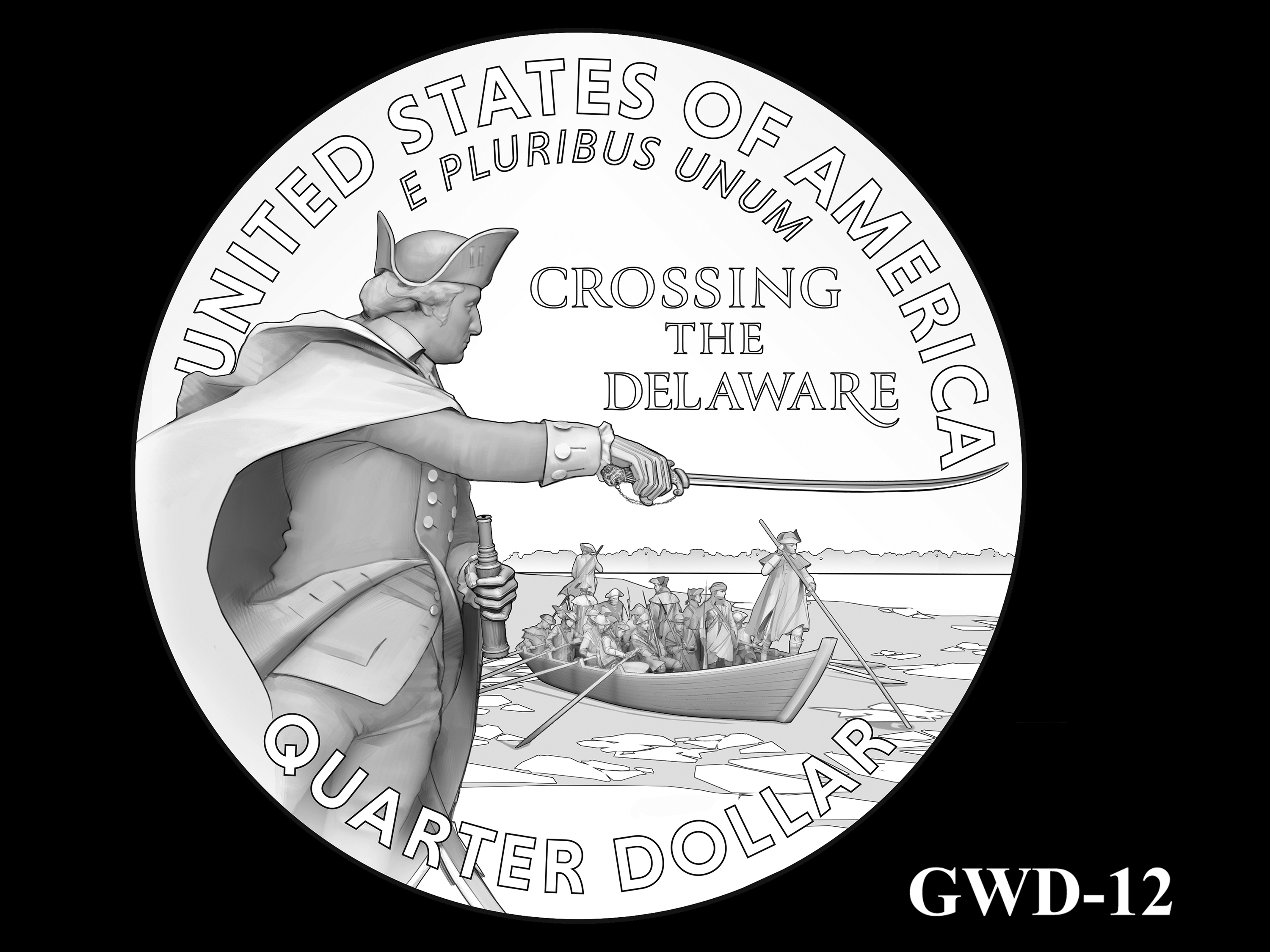 GWD-12 -- George Washington Crossing the Delaware River quarter - reverse